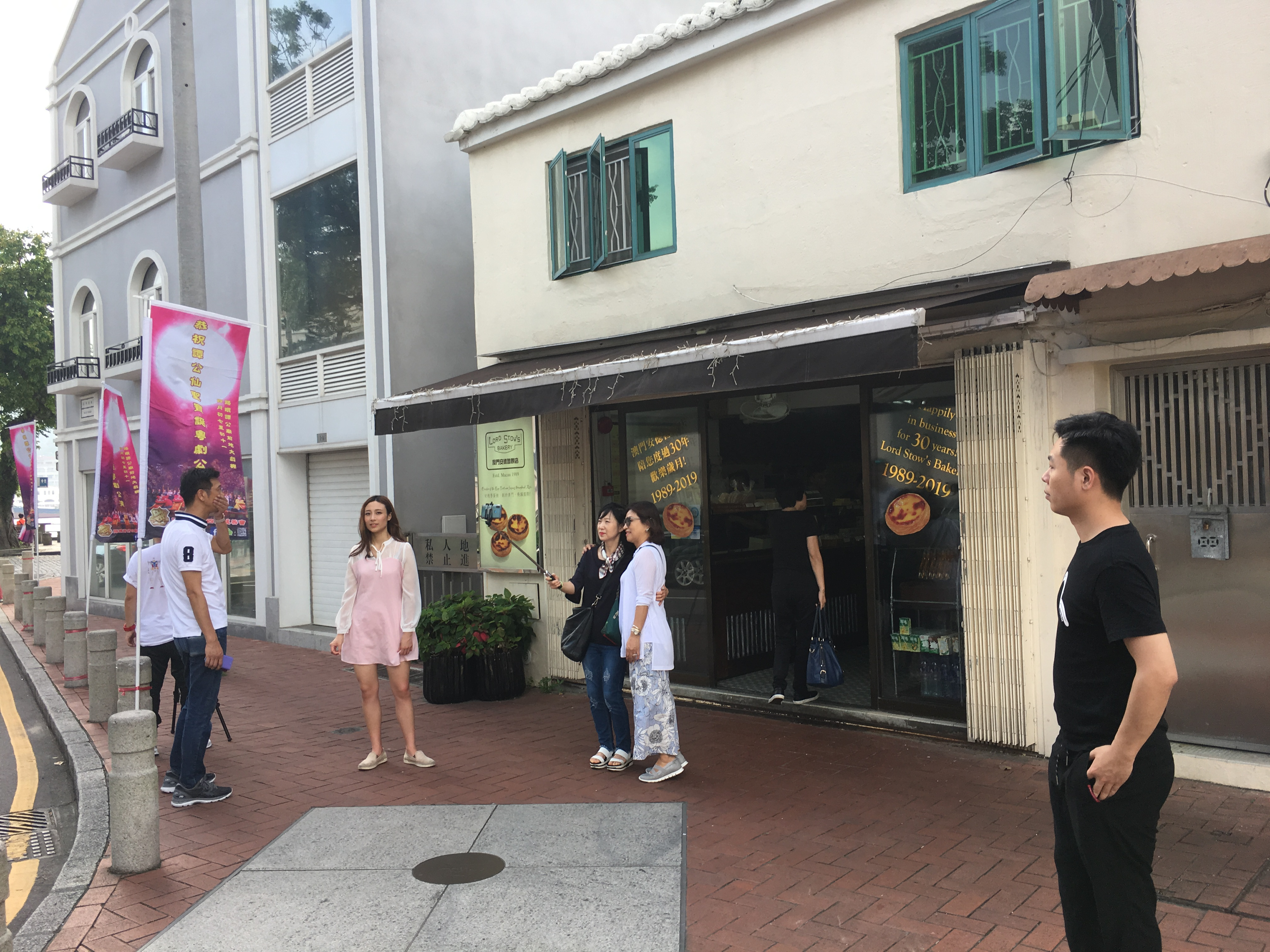 中文（香港）: This photo is taken in Coloane.